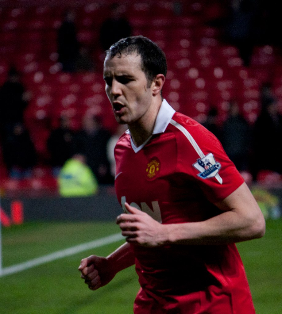 John O'Shea